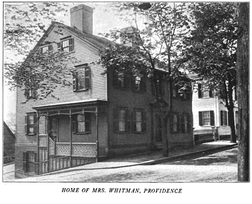 Home of American poet Sarah Helen Whitman in Providence, Rhode Island. The home is still standing in 2009. Image from Poe's Helen by Caroline Ticknor. Published by C. Scribner's sons, 1916.